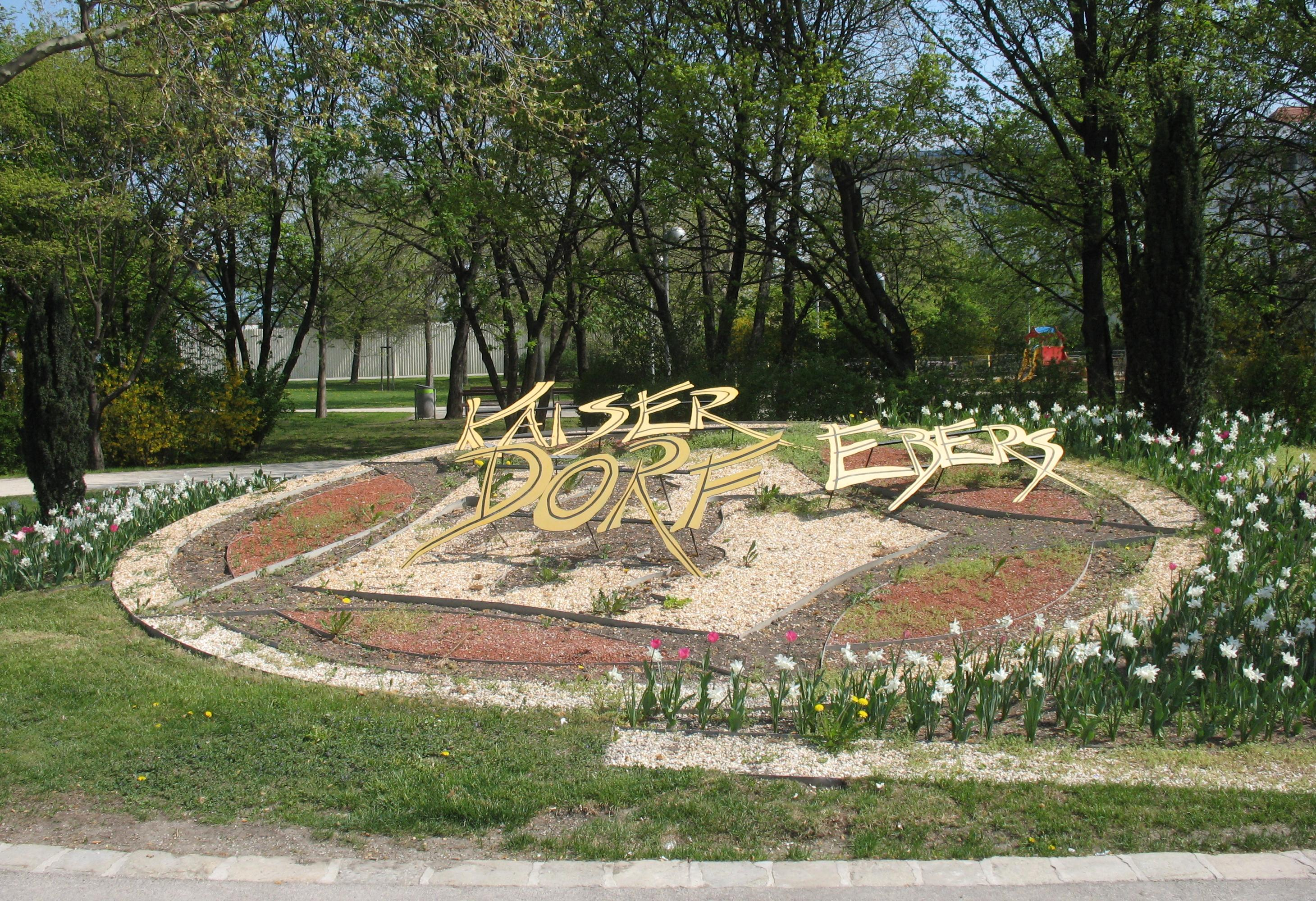 Park in Kaiserebersdorf in Vienna, Austria